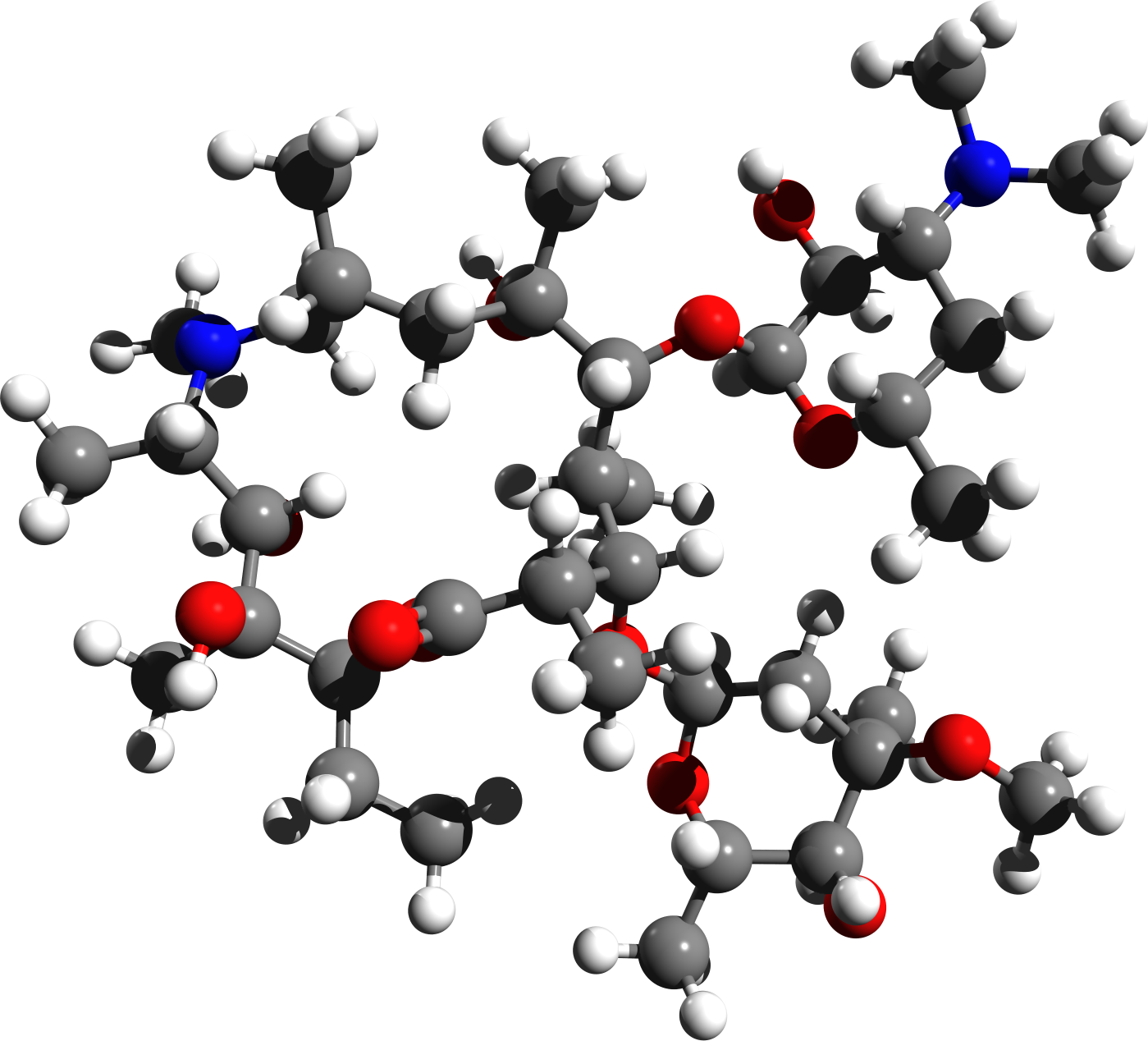 Azithromycin structure